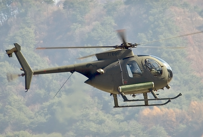 MD-500 Korean Army